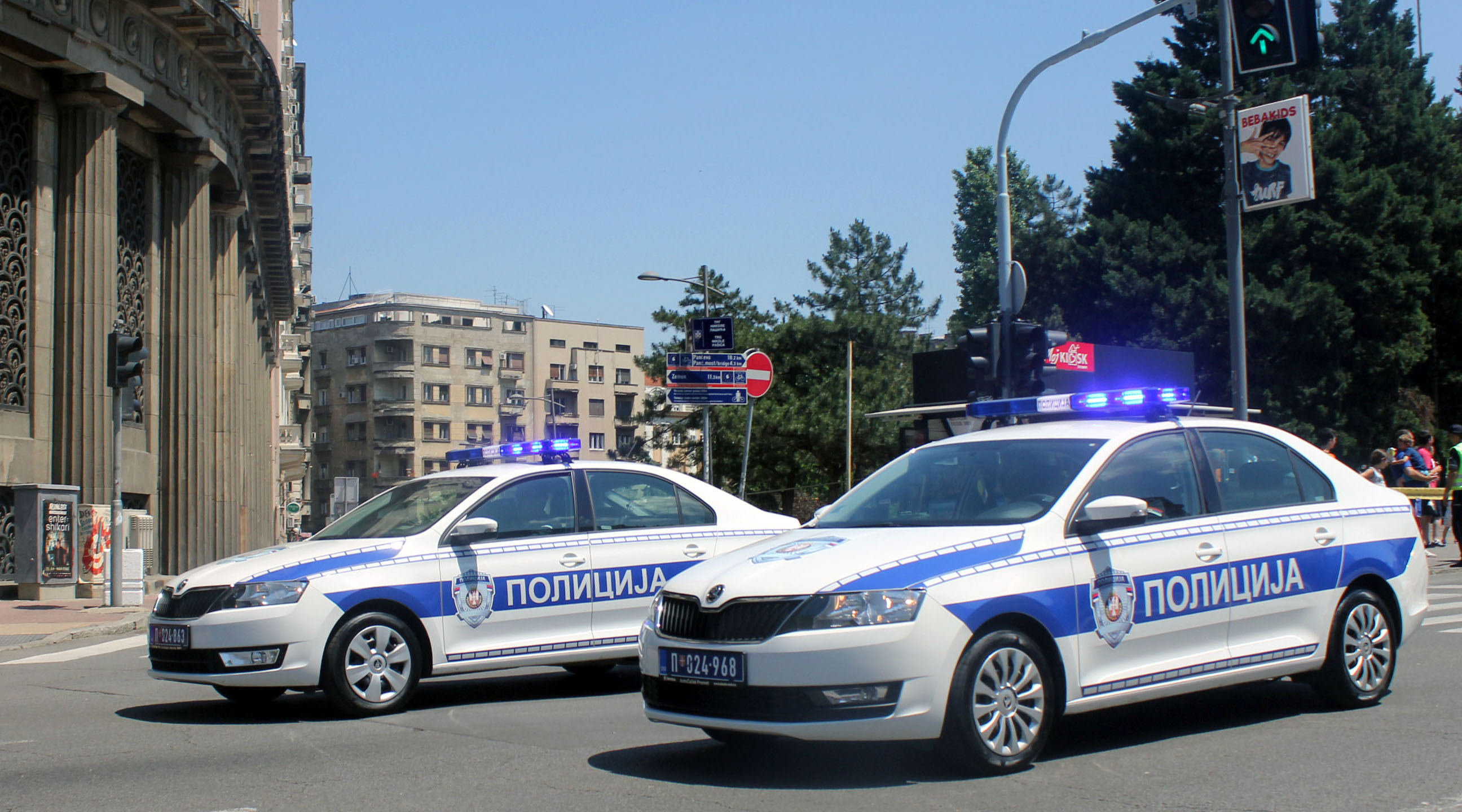 Serbian police Škoda Rapid patrol cars on 2018 Police Day parade at Belgrade.